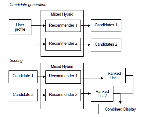 Sistema de Recomanació, Mixt